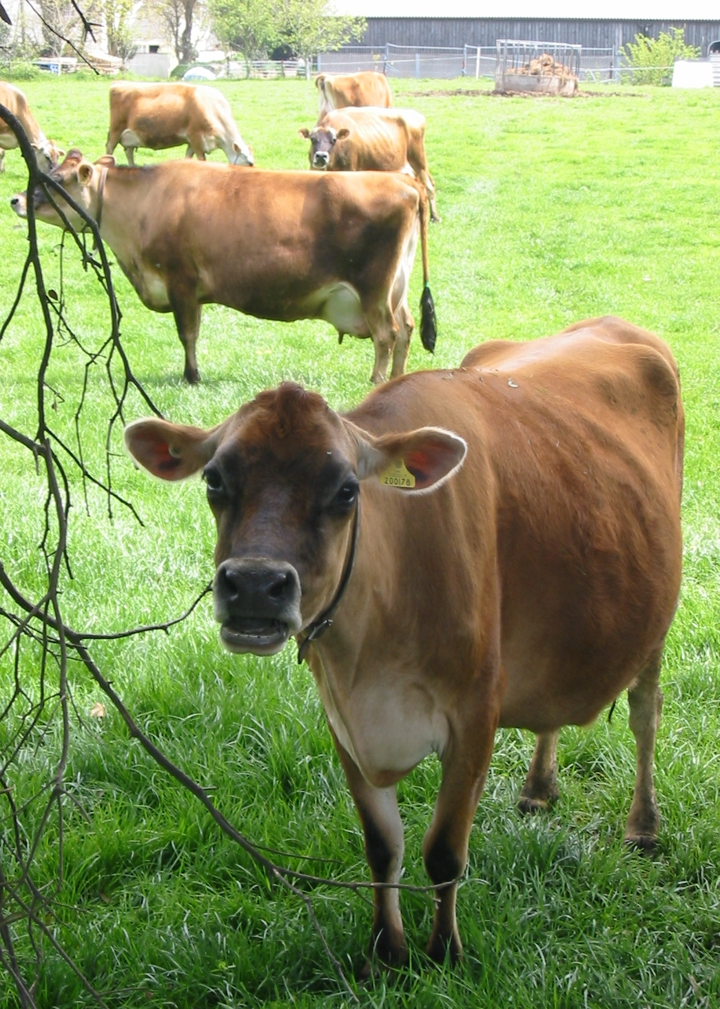 Jersey